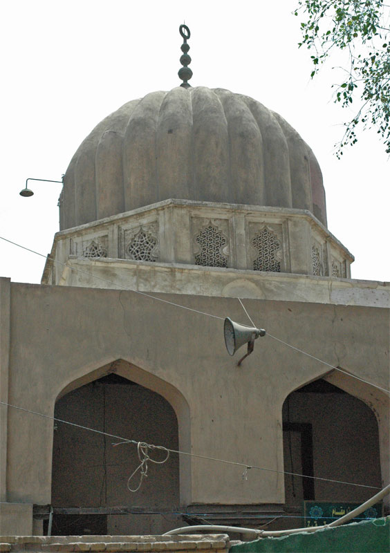 Mausoleum of Sayyida Ruqayya (527/1132). Cairo, Egypt